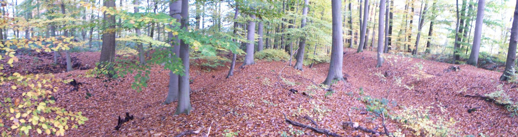 The Alte Landwehr, a rampart westward of Lüneburg, Lower Saxoy, Germany. Erected 1397 - 1406.